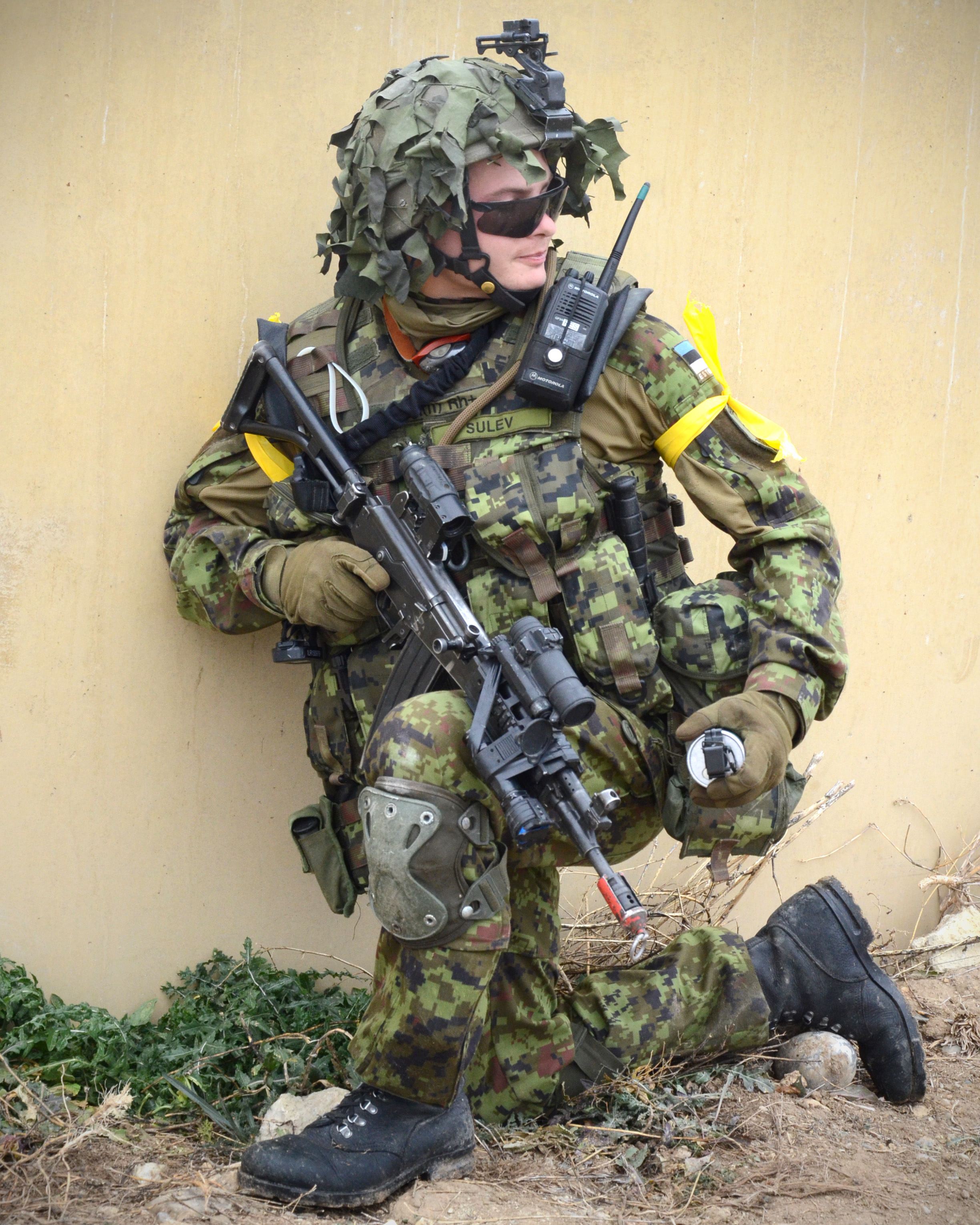 A Estonian soldier on the training area Casas Altas from the Baltic Battalion during Trident Juncture 2015 NATO photo by Karl Schoen